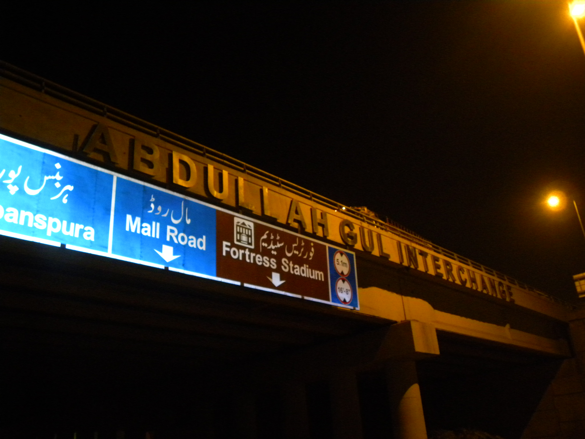 Abdullah Gul bridge Lahore